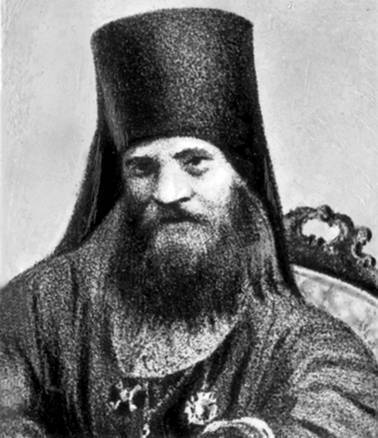 Alexander Matveyevich Buharev